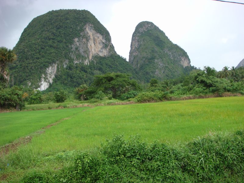 Limestone formations. Malaysia's Perlis Province.